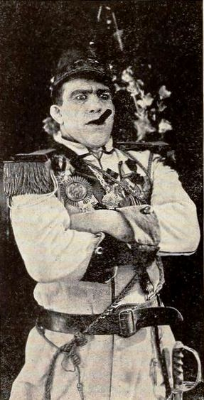 Still from the American comedy short film The Punctured Prince (1922) with Bull Montana, on page 80 of the December 9, 1920 Exhibitor's Trade Review.